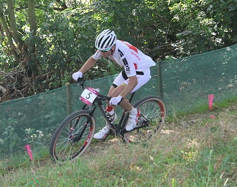 Cycling at the 2012 Summer Olympics – Men's cross-country Florian Vogel (5) (SUI) IMG_4105